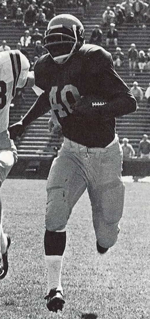 Photograph of Ron Johnson (R, number 40), University of Michigan running back in 1967 Navy game in which he rushed for 270 yards